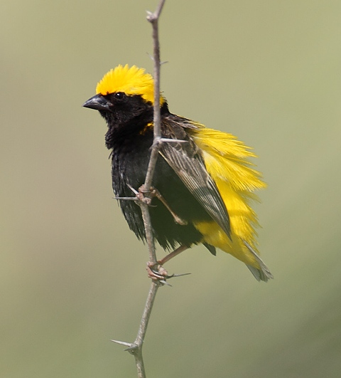 A male Yellow-crowned bishop near Lake Baringo, Kenya, busy displaying to a nearby female.